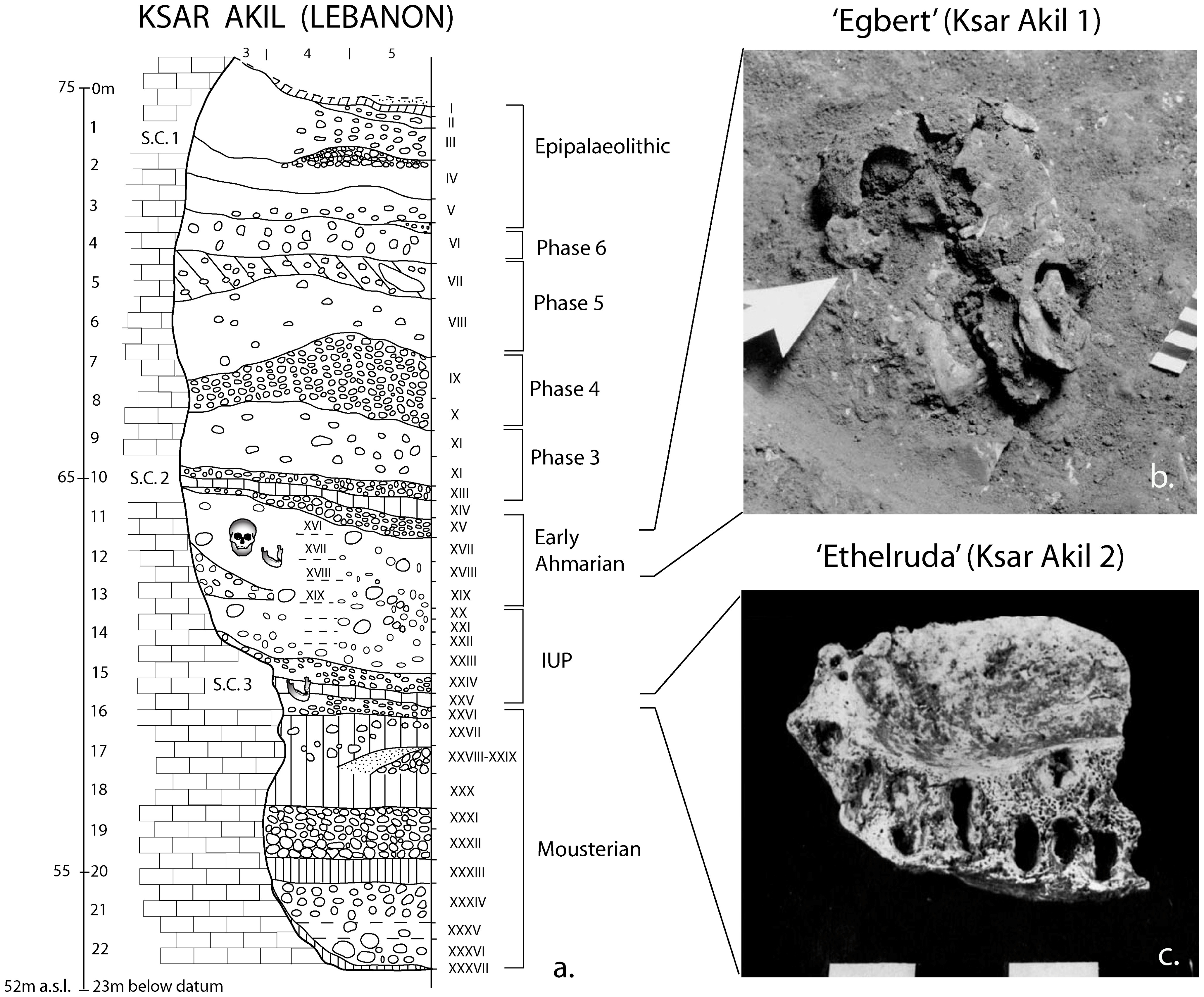 (a) Stratigraphic sequence of Ksar Akil; (b) The discovery of Egbert (Ksar Akil 1) in 1938. Close up of the skull in situ; (c) View of the partial right maxilla of Ethelruda (Ksar Akil 2).